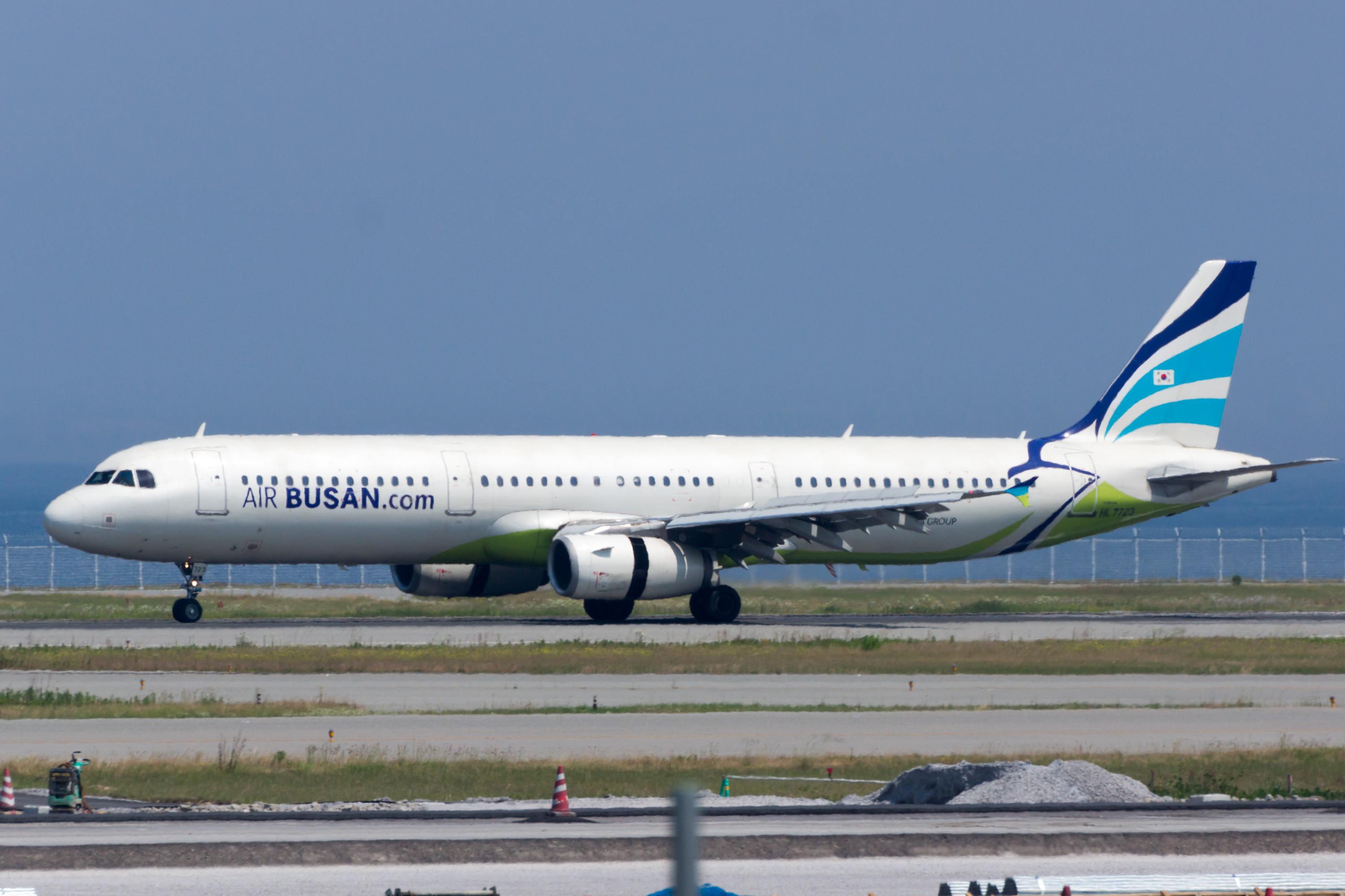 Air Busan / 에어부산 / エアプサン Airbus A321-231 HL7723 BX124, Arrived from Busan Osaka Kansai Int'l Airport